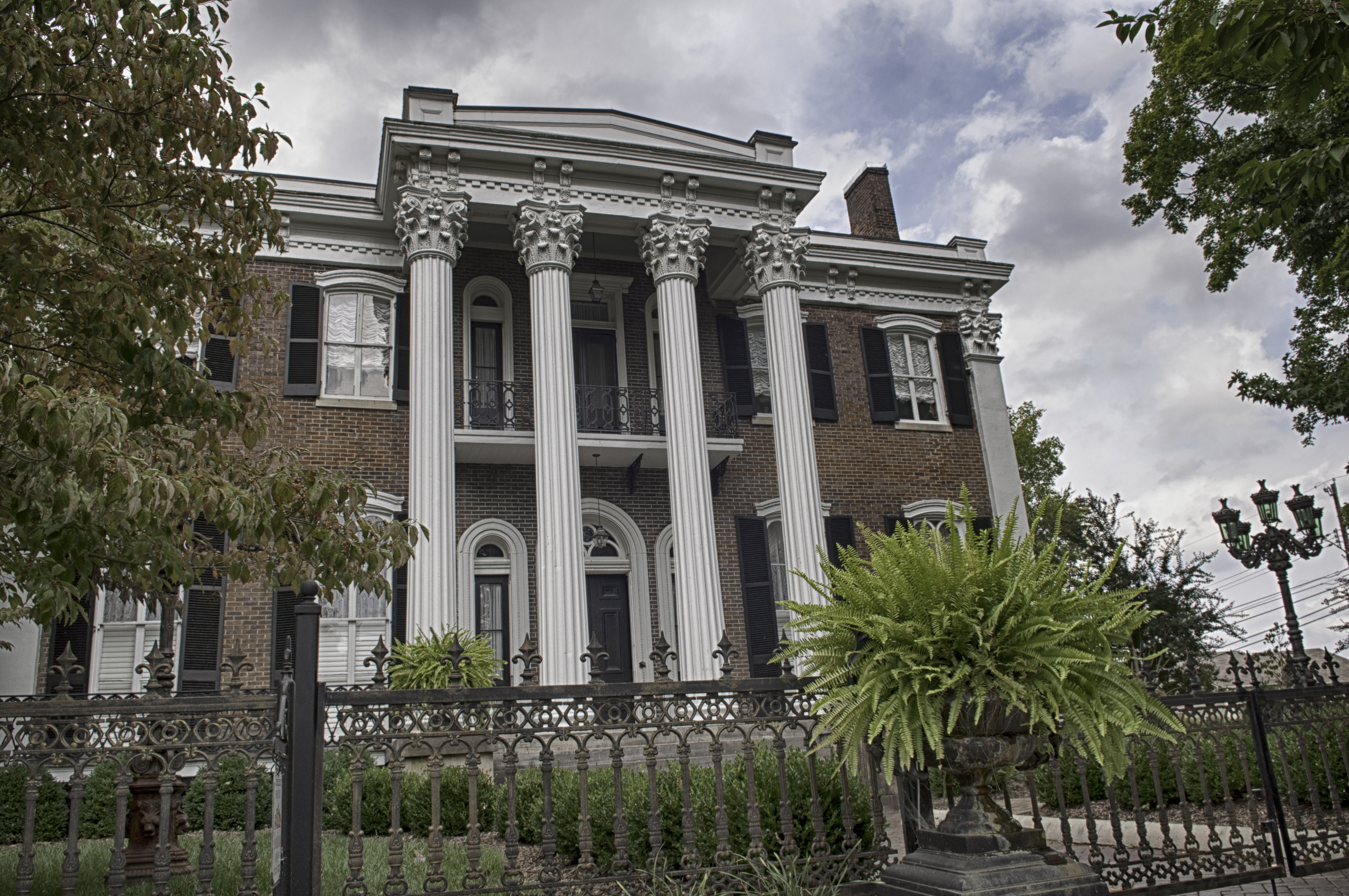 Mayes-Hutton House built in 1855 in Greek Revival style.